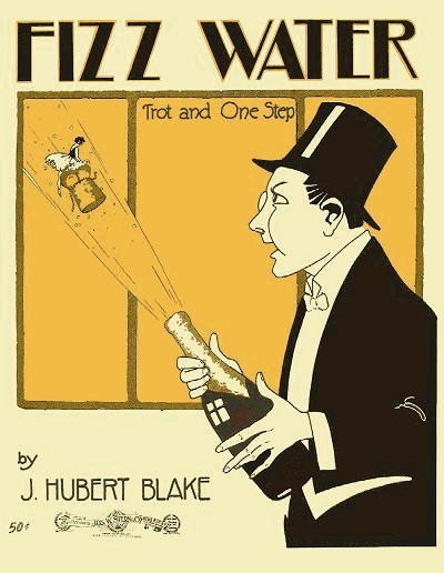 Fizz Water, 1914